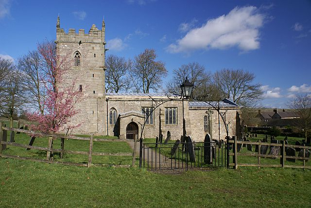 Blore Ray St Bartholomew Church Complete with burning bush! This grade 1 listed church dates from the early 12th Century. It remains unchanged since this time, although it underwent some repairs in 1840. The buildings to the right of the church, belong to Bore Hall, once the home of the Bassett family.